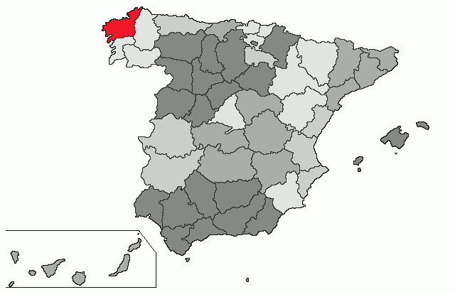 Province of A Coruña